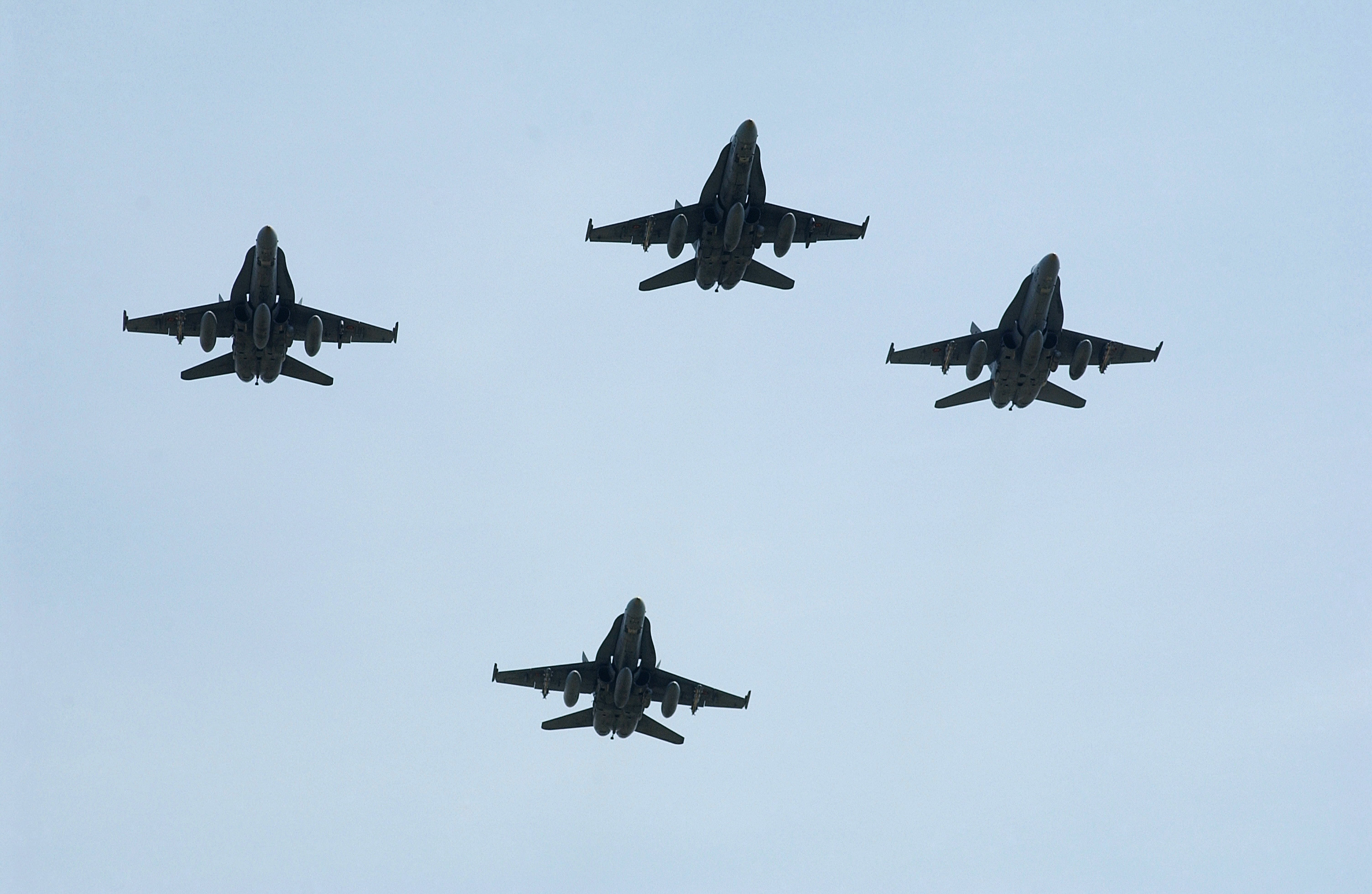 A four-ship formation of Spanish Air Force EF-18 Hornet aircraft performs a fly-by, during the Spanish Icaro Detachment Deactivation Ceremony held at Aviano Air Base (AB) Italy.